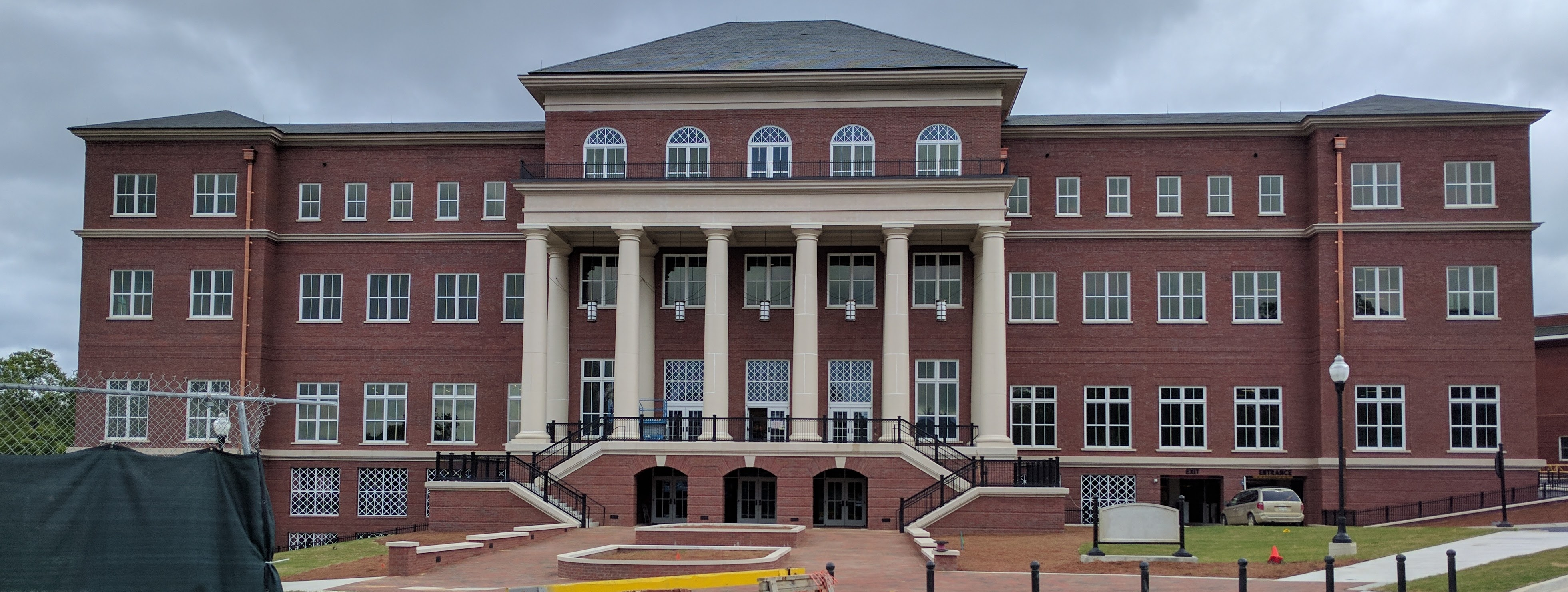 This is a picture of the Old Main Academic Center at Missisippi State University near Starkville, MS in Oktibbeha County. Construction on the building began in 2014 and was completed in 2017. The building is located behind the YMCA building which previously served as the university's post office. The building was designed to stylistically imitate the look and feel of the "Old Main Dormitory" which historically was located on the campus until it burned down in 1959. The building contains classroom spaces as well as a parking garage on the lower floors. It is a brick building with columns on the front. There are five total floors to the building.